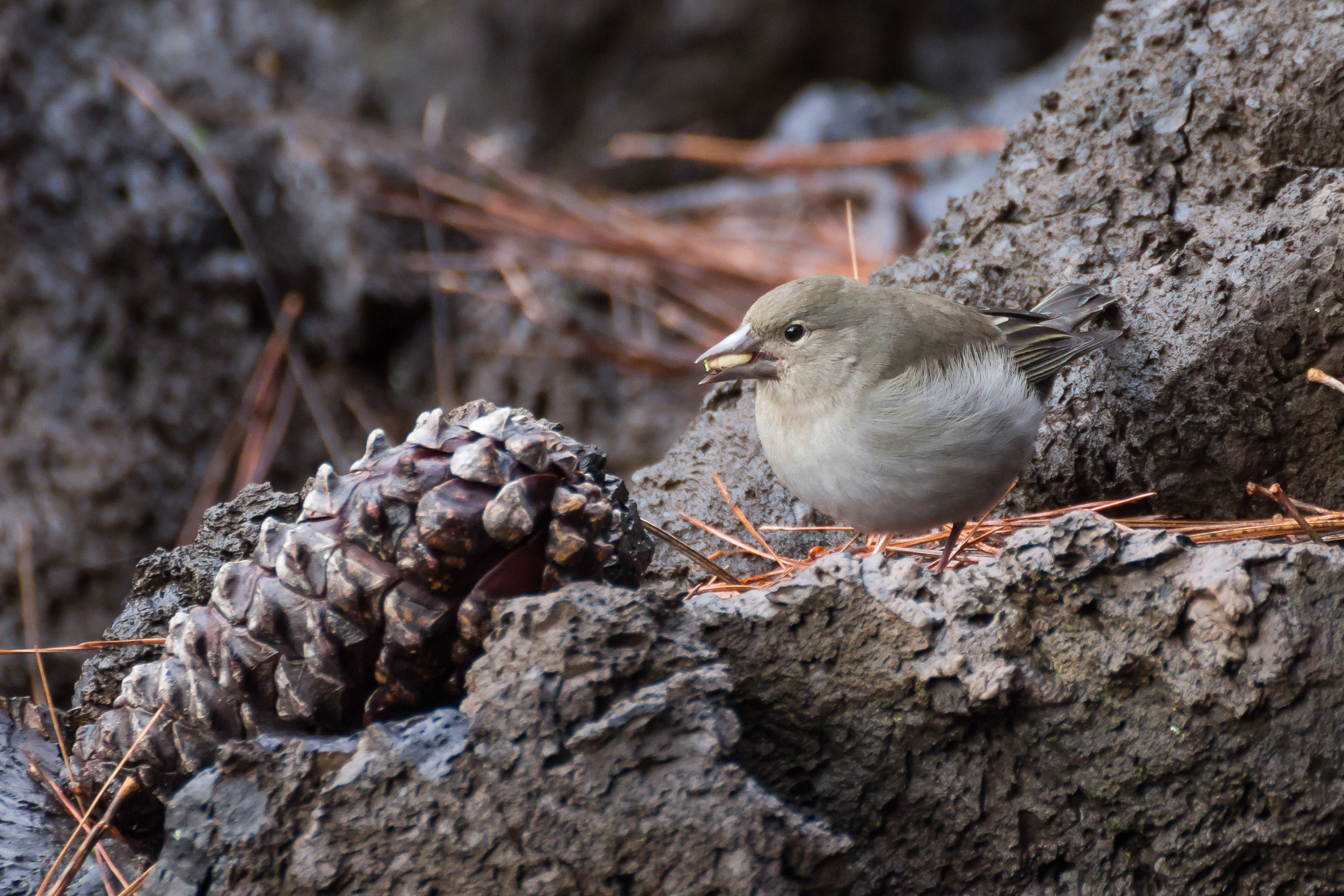 Female blue chaffinch (Fringilla teydea) eating seeds of Canary pine.